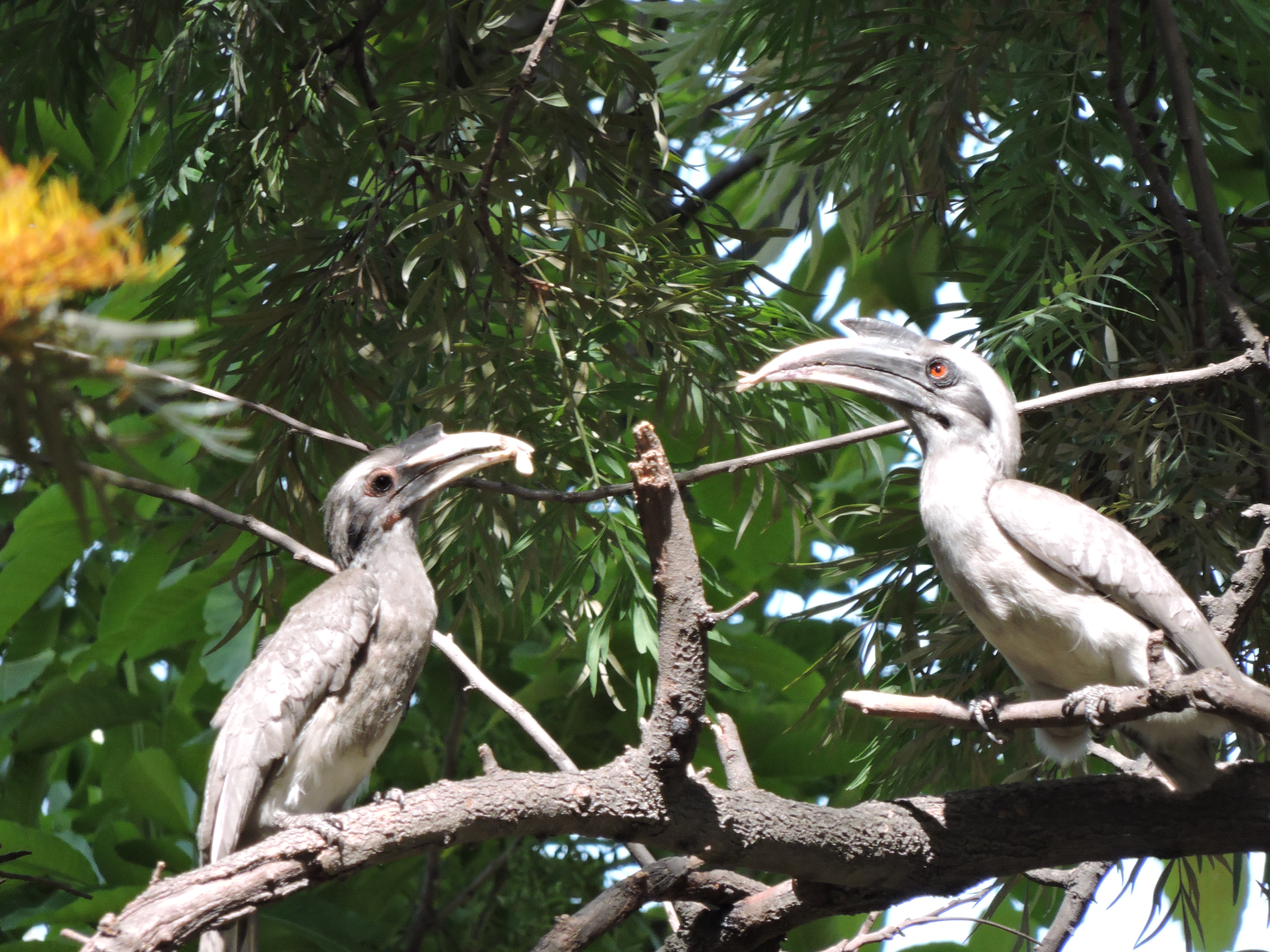 Indian grey hornbill, at Nature Park Mohali ,Punjab,India